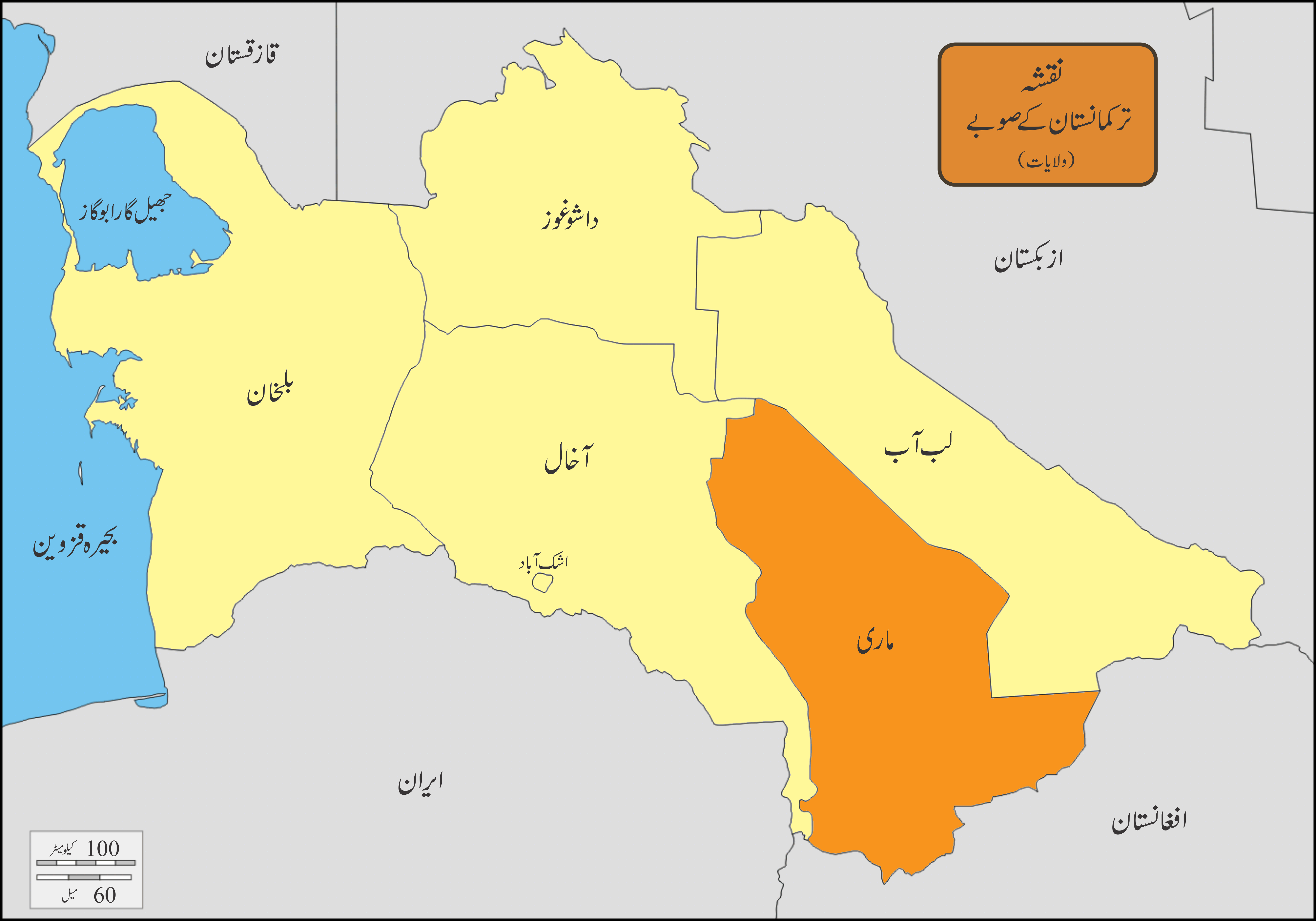 Turkmenistan Ur Mary